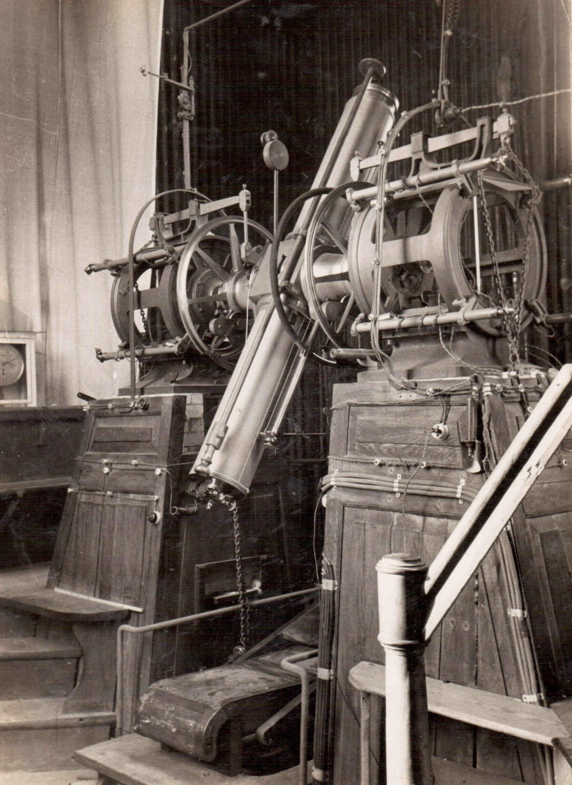 Meridian Circle of Kharkiv Observatory, 1904